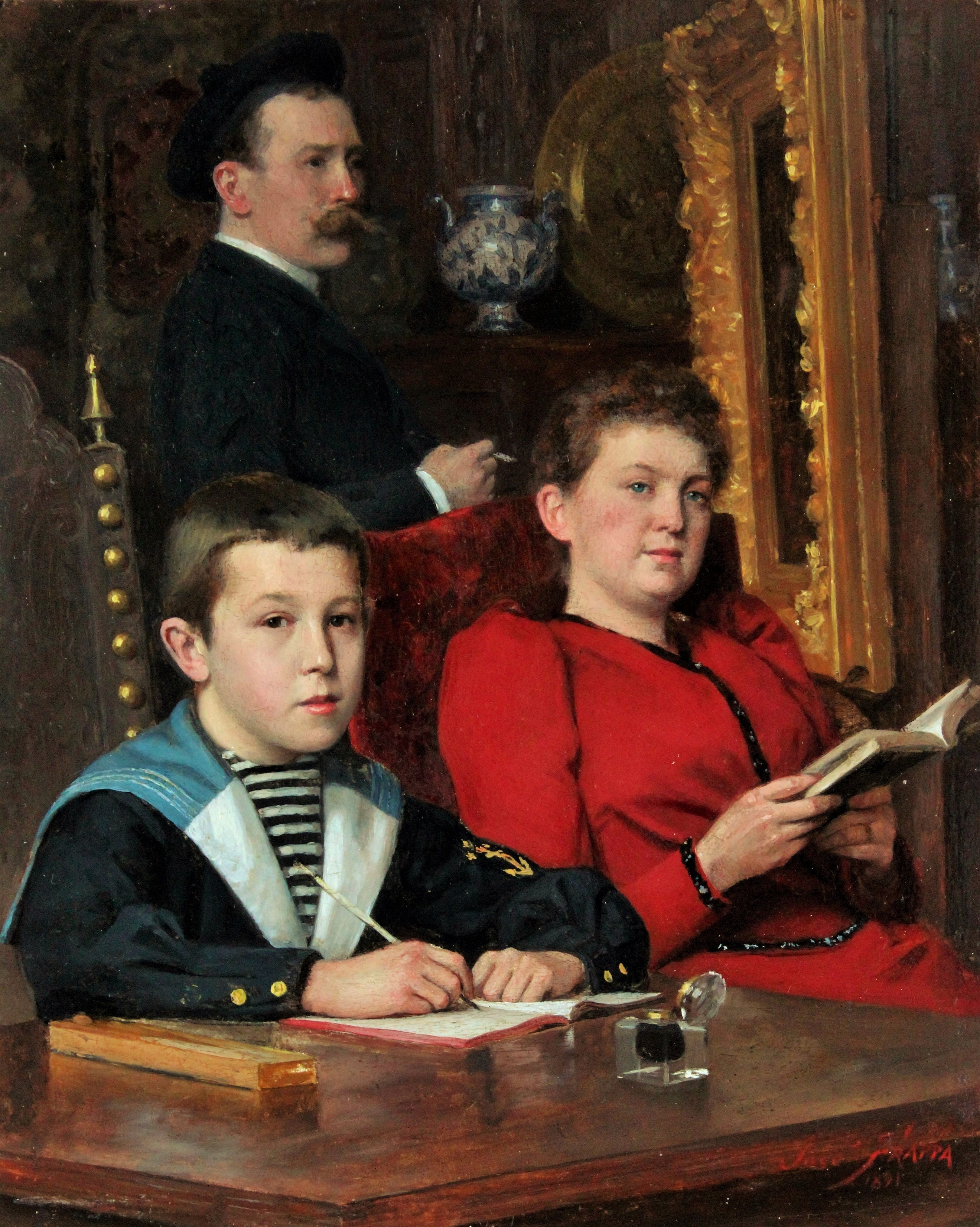 Selfportrait by José Frappa with his wife Marie-Augustine Frézet and his son Jean-José Frappa, 1891